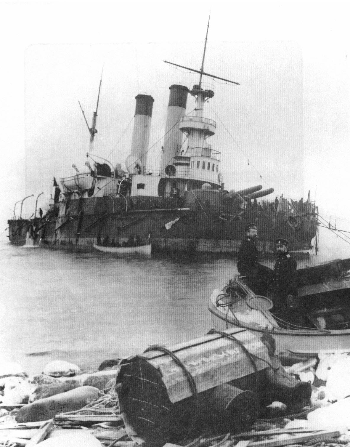 Imperial Russian coastal battleship General-admiral Apraksin.